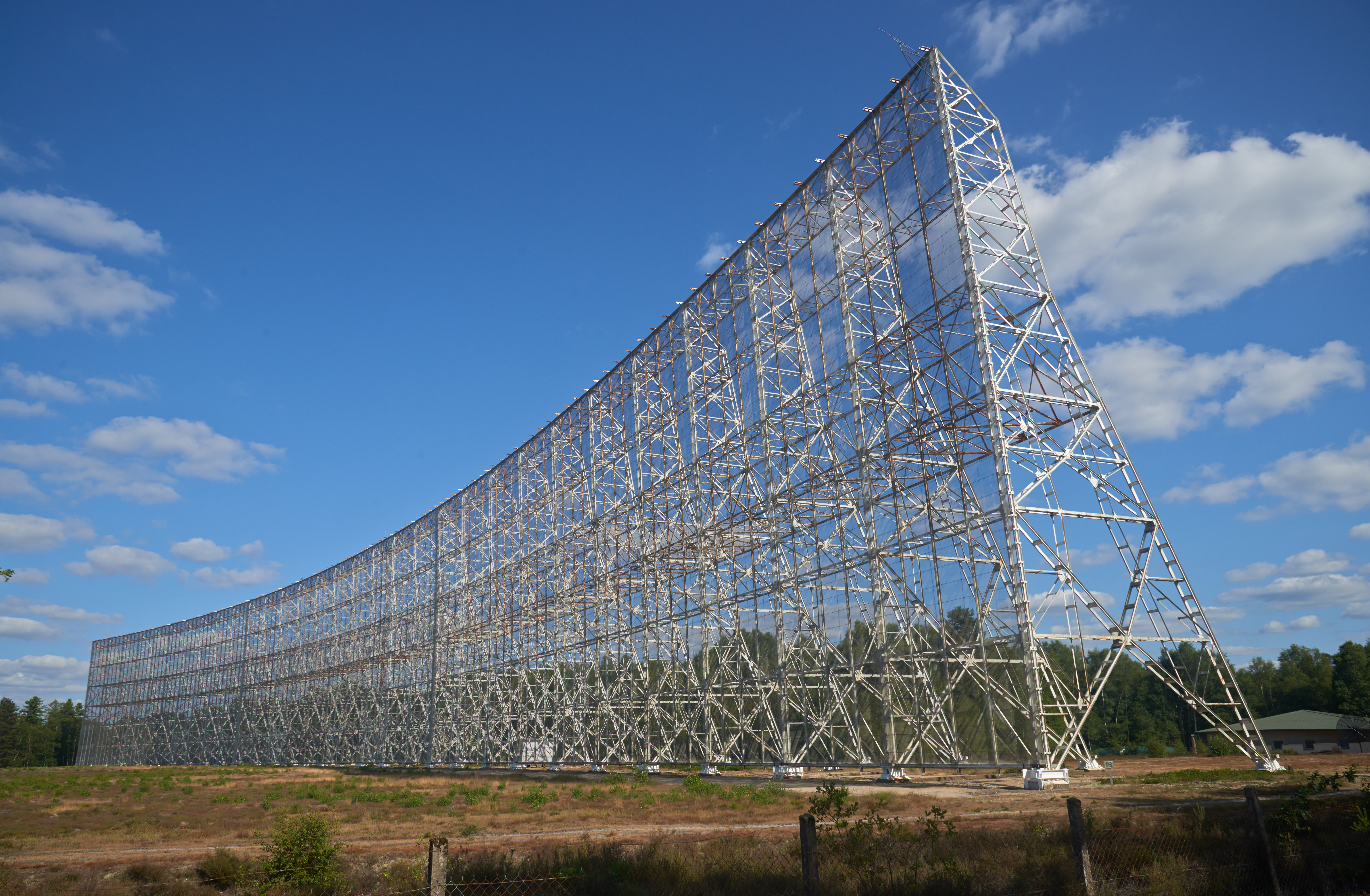 Nançay Observatory